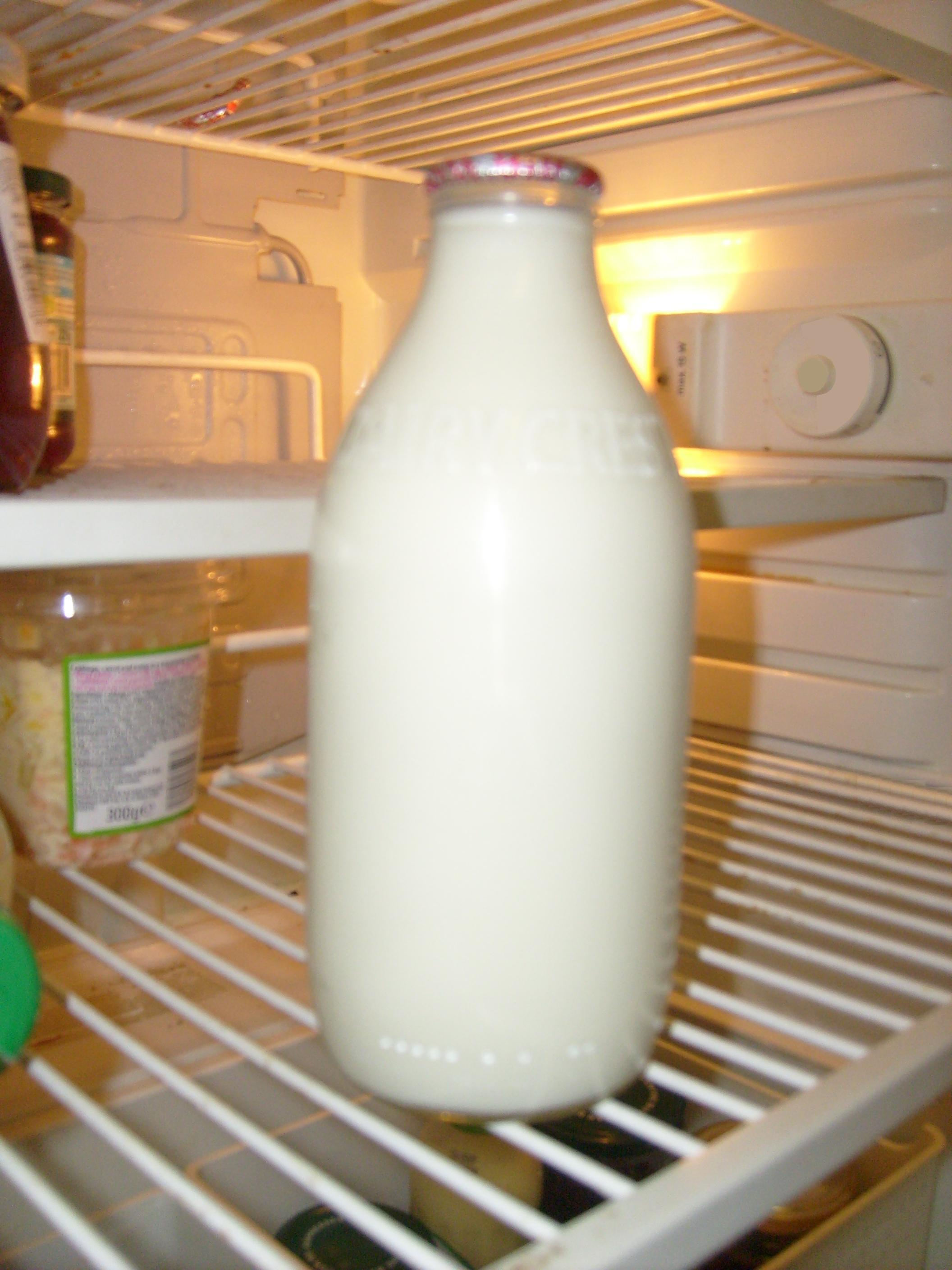 A Dairy Crest Semi-Skimmed Milk Bottle.